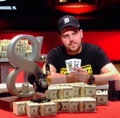 Noah Schwartz, 2015 World Poker Tour’s Alpha8 Florida